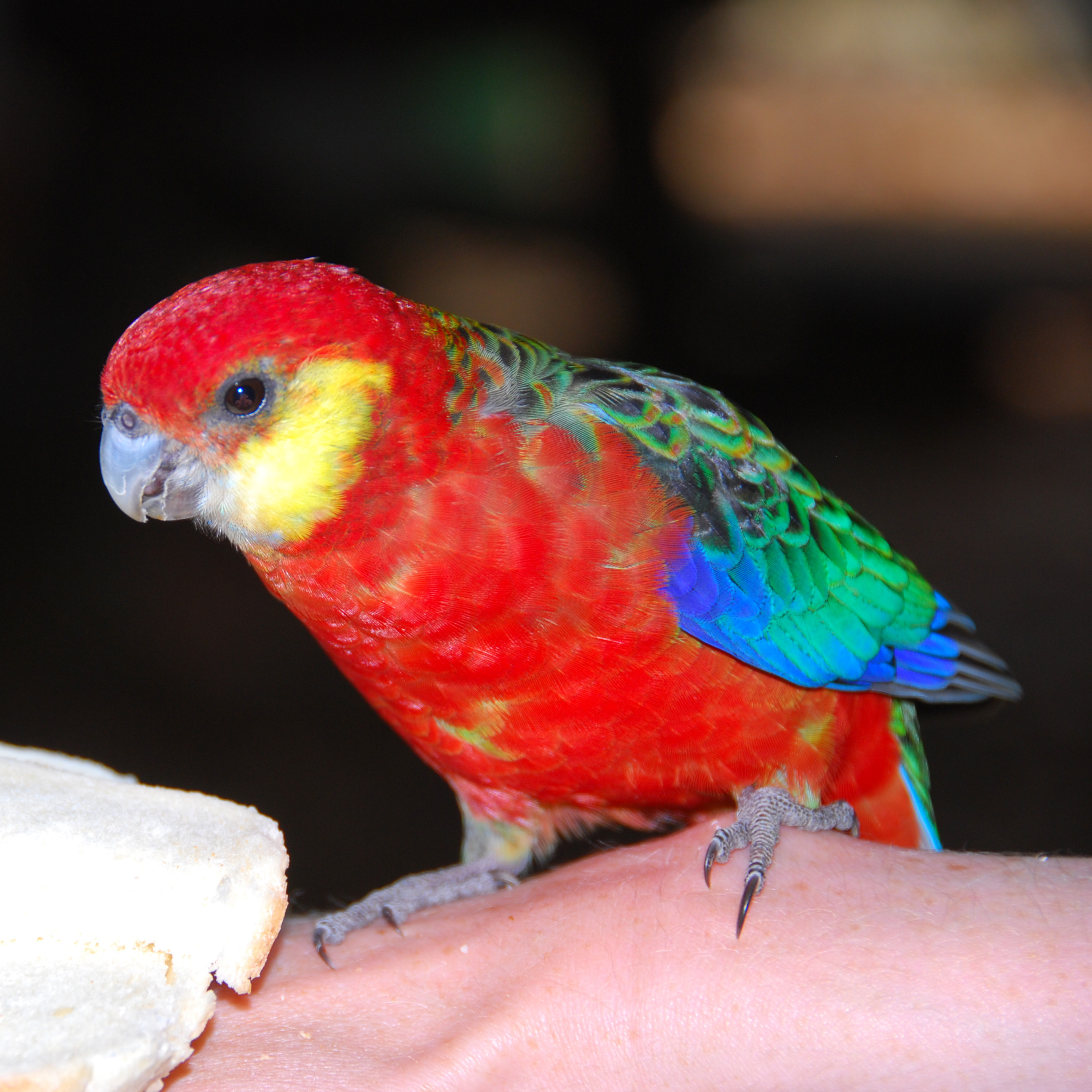 Western Rosella (Platycercus icterotis) in Western Australia.